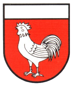 Coat of arms of Renquishausen Die Gemeinde Renquishausen, Landkreis Tuttlingen, führt das nachfolgend beschriebene Wappen. Unter silbernem (weißem) Schildhaupt in Rot ein stehender silberner (weißer) Hahn. Der Hahn, dessen Bedeutung nicht bekannt ist, wurde aus dem Schultheißenamtssiegel von 1821 übernommen. Die Farben sind dem Wappen der Grafen von Hohenberg entnommen, in deren Besitz der Ort im 14. Jahrhundert erscheint. Laut Gemeinderatsbeschluß, wurde das oben beschriebene Wappen, mit Datum vom 23. Februar 1965 angenommen.